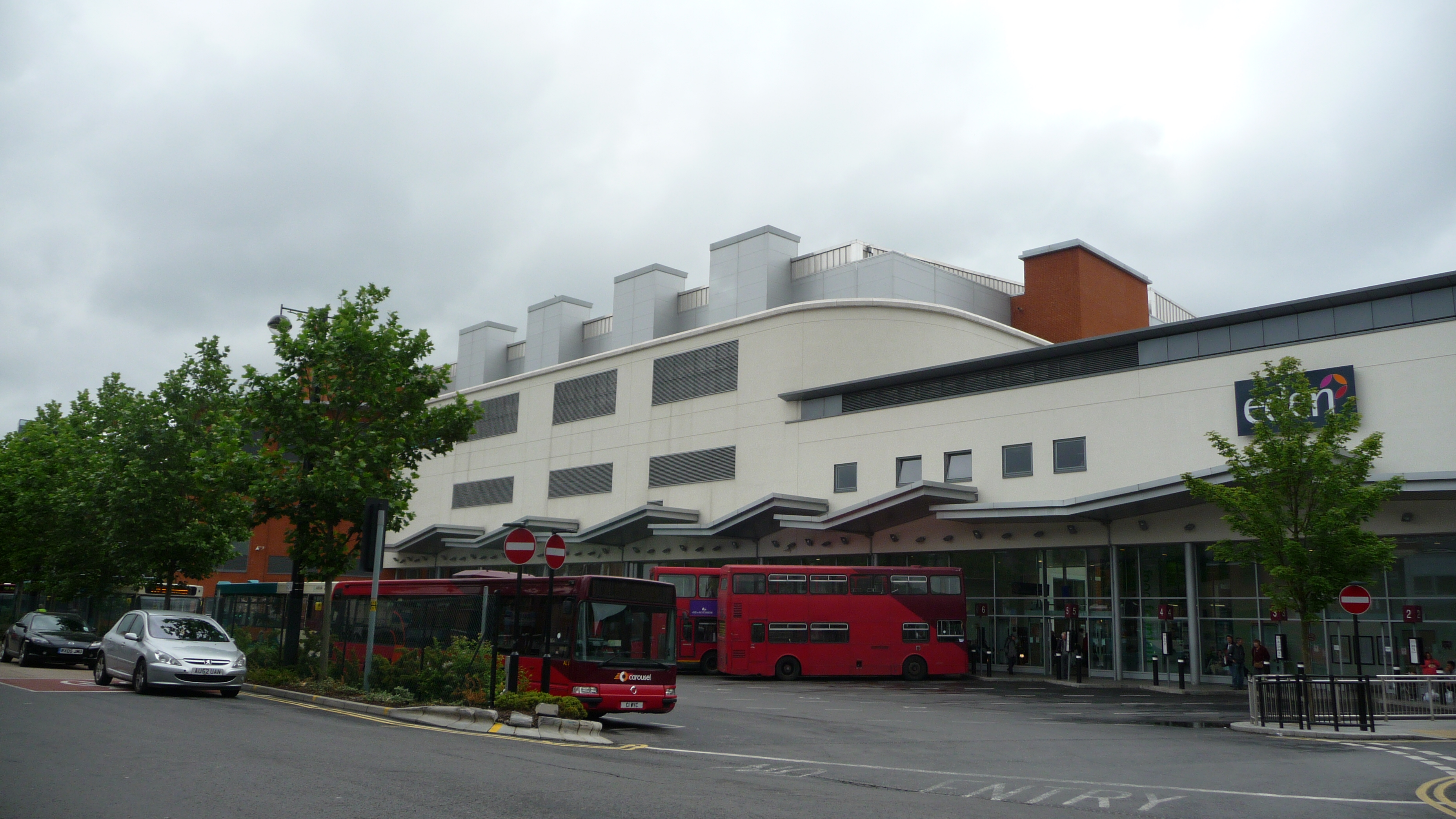 High Wycombe bus station, High Wycombe, Buckinghamshire, in the town centre. It adjoins the Eden shopping centre.